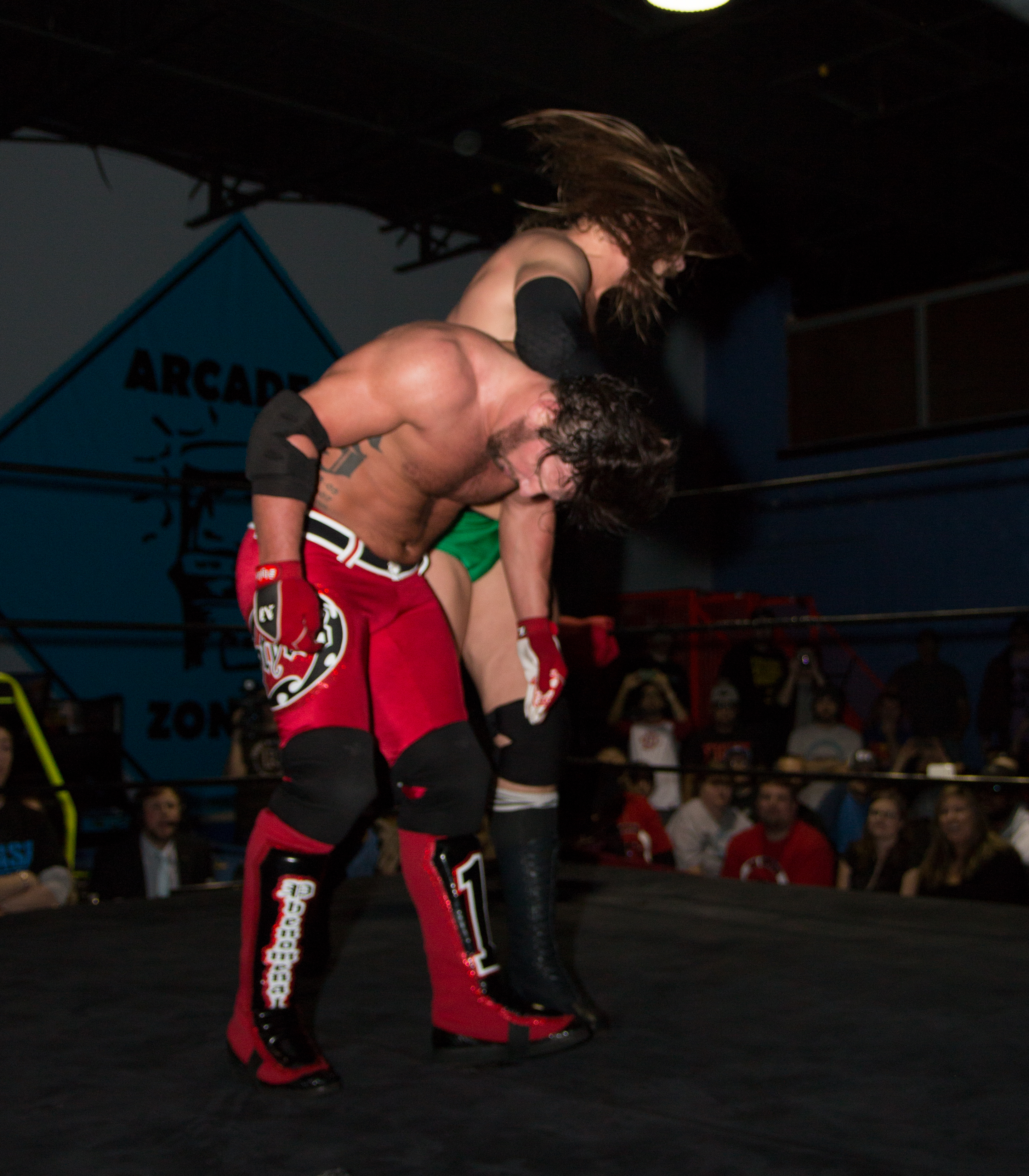 Chris Hero (in back) delivering his "K.O." (discus elbow smash) to A.J. Styles (in front) at a Smash Wrestling show in Toronto, ON